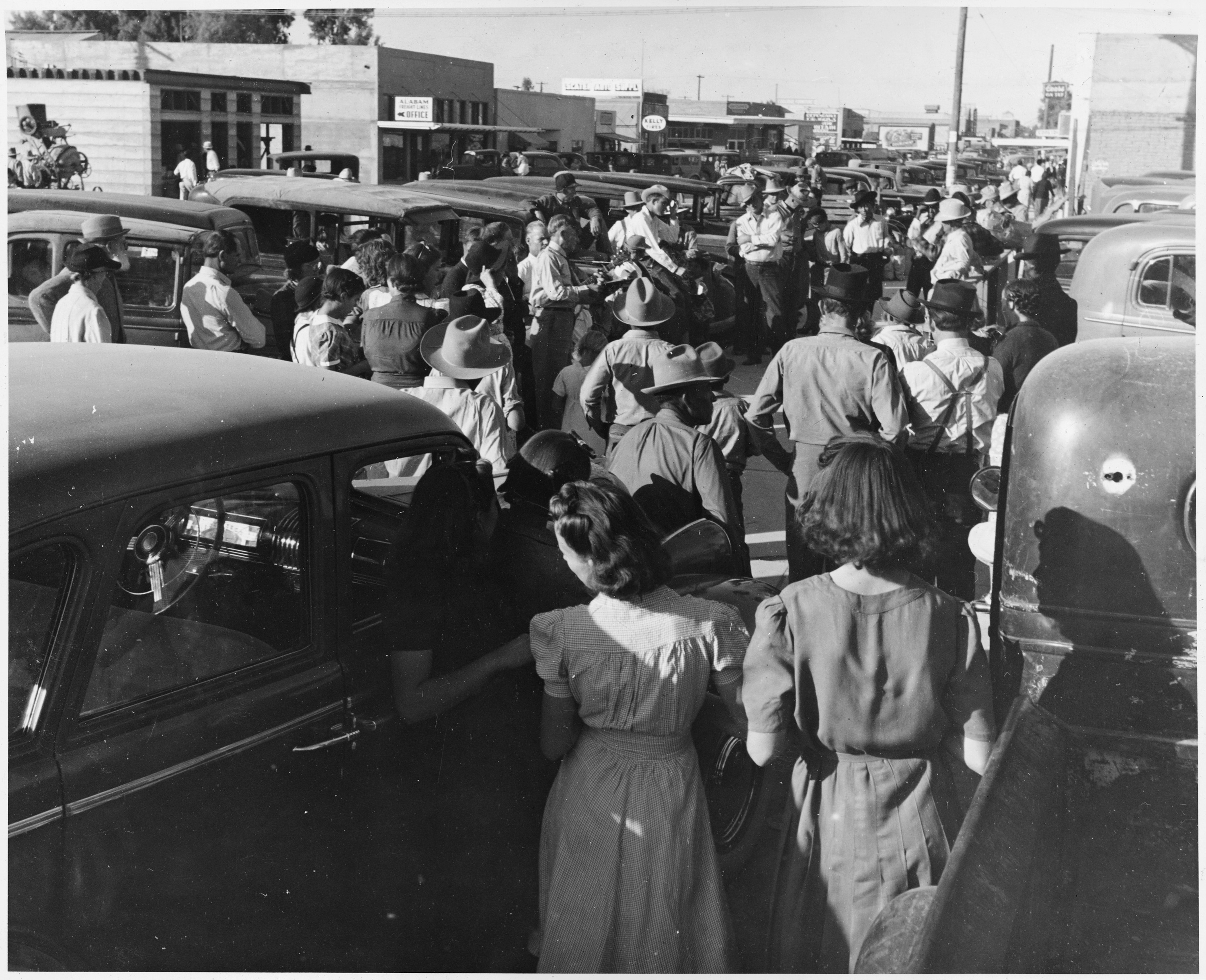 Scope and content: Full caption reads as follows: Coolidge, Arizona. Main street of Coolidge on Saturday afternoon during cotton harvest.